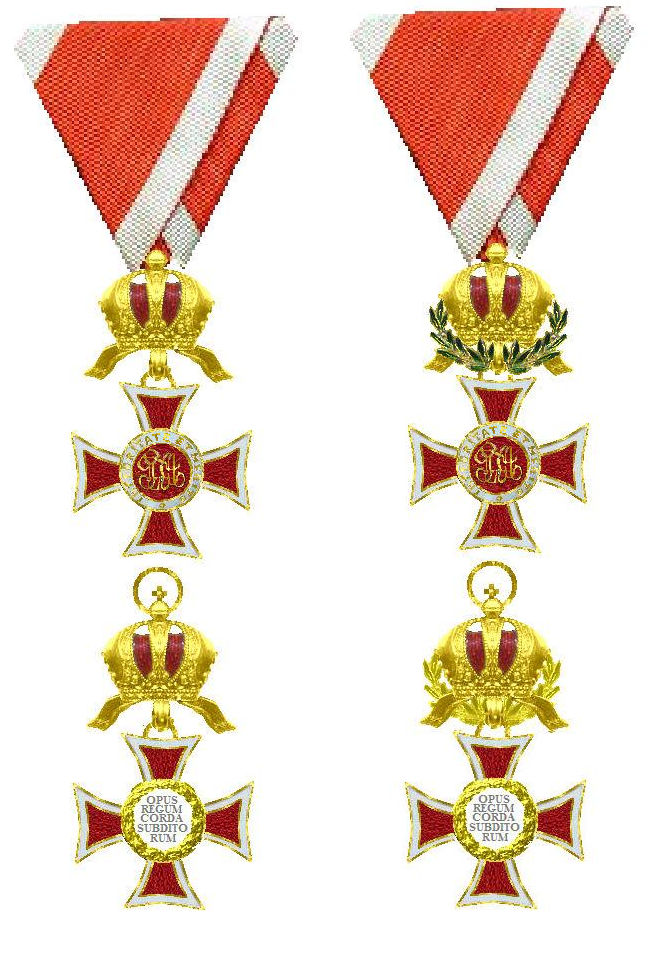 Order of Leopold (Austria)